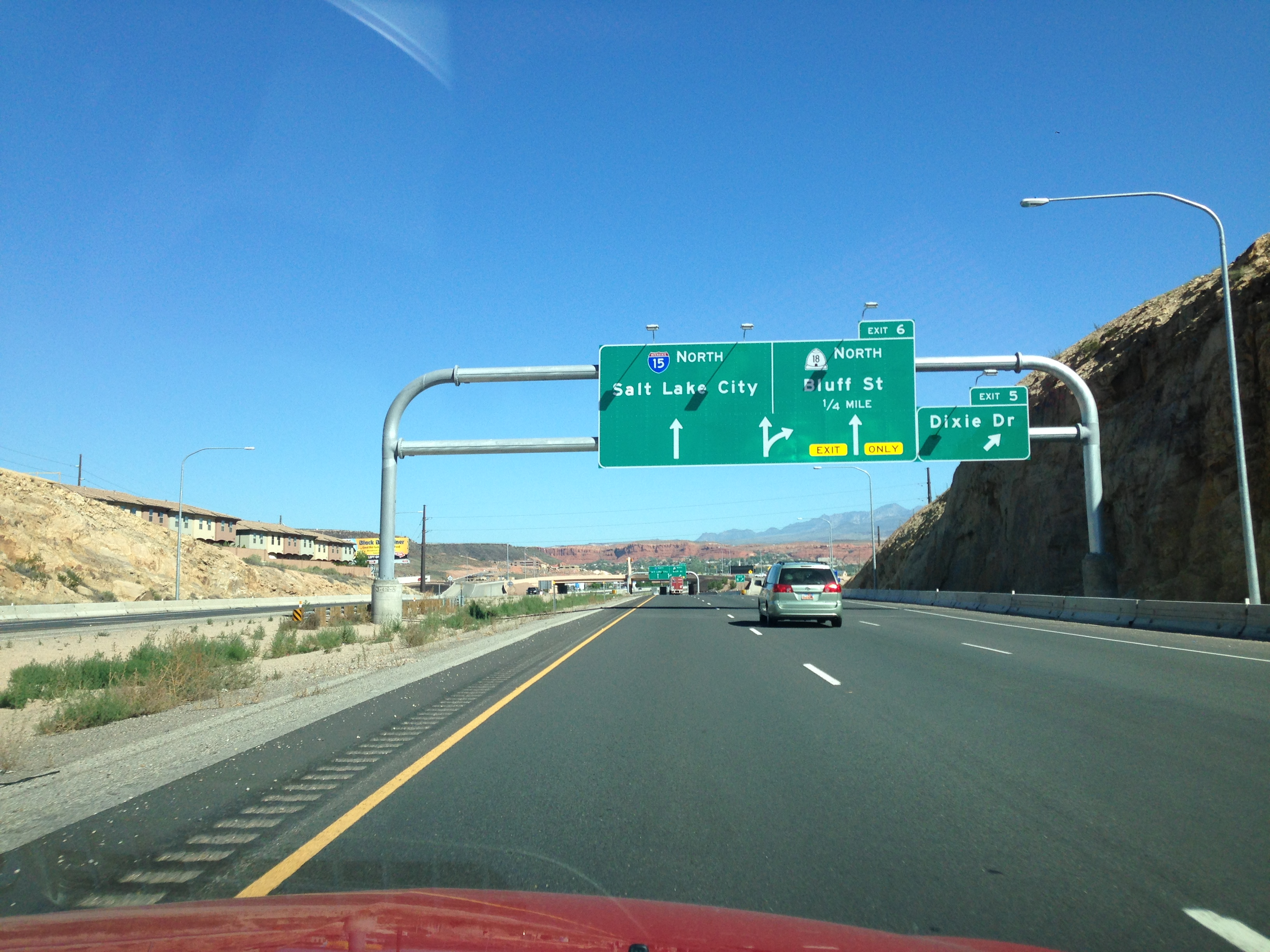 View north along Interstate 15 in Utah near milepost 5.5